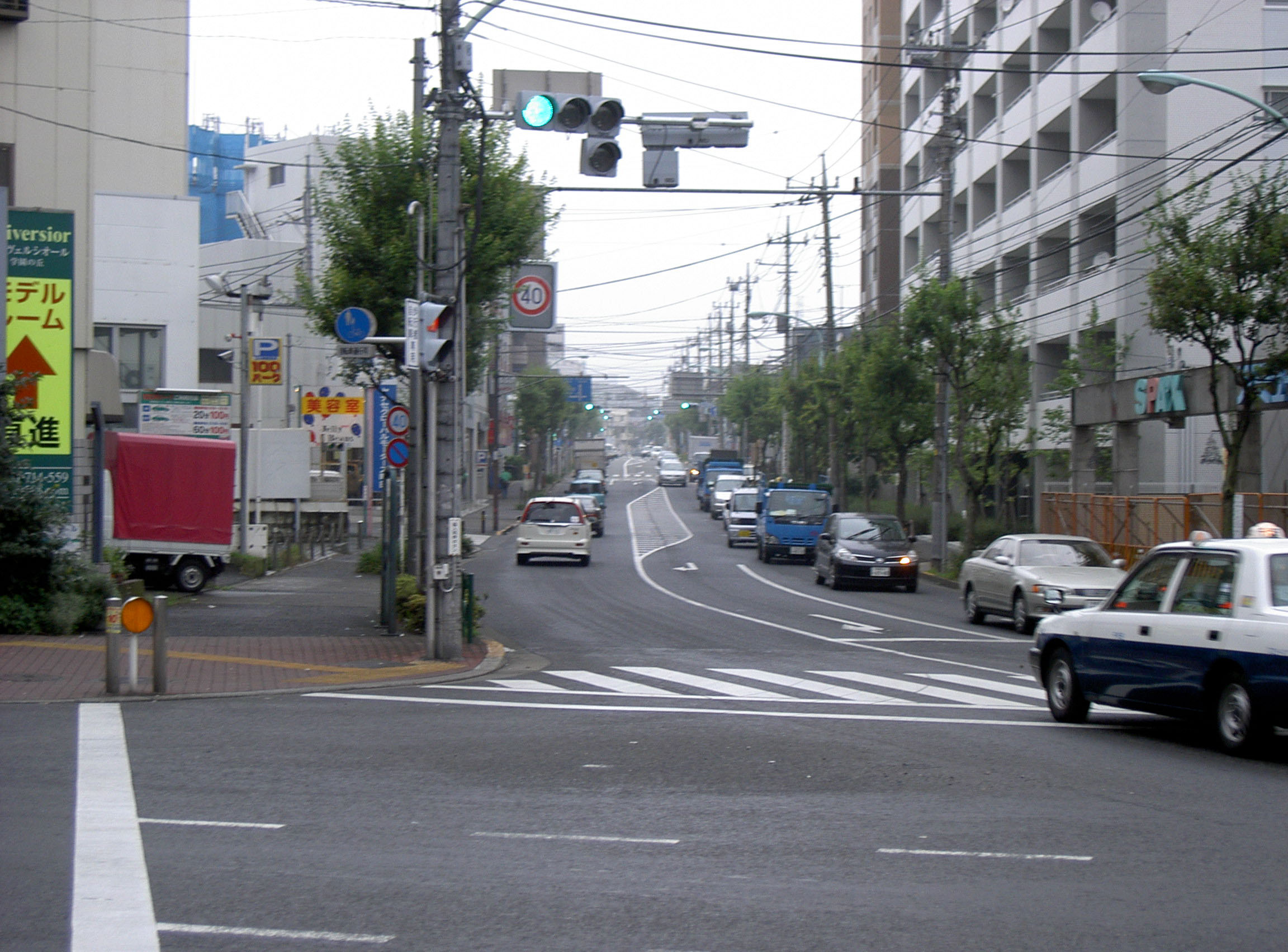 The terminal of Tokyo Prefectural Road Route 47, in Machida city ja: 東京都道47号八王子町田線終点（町田市三塚交差点）